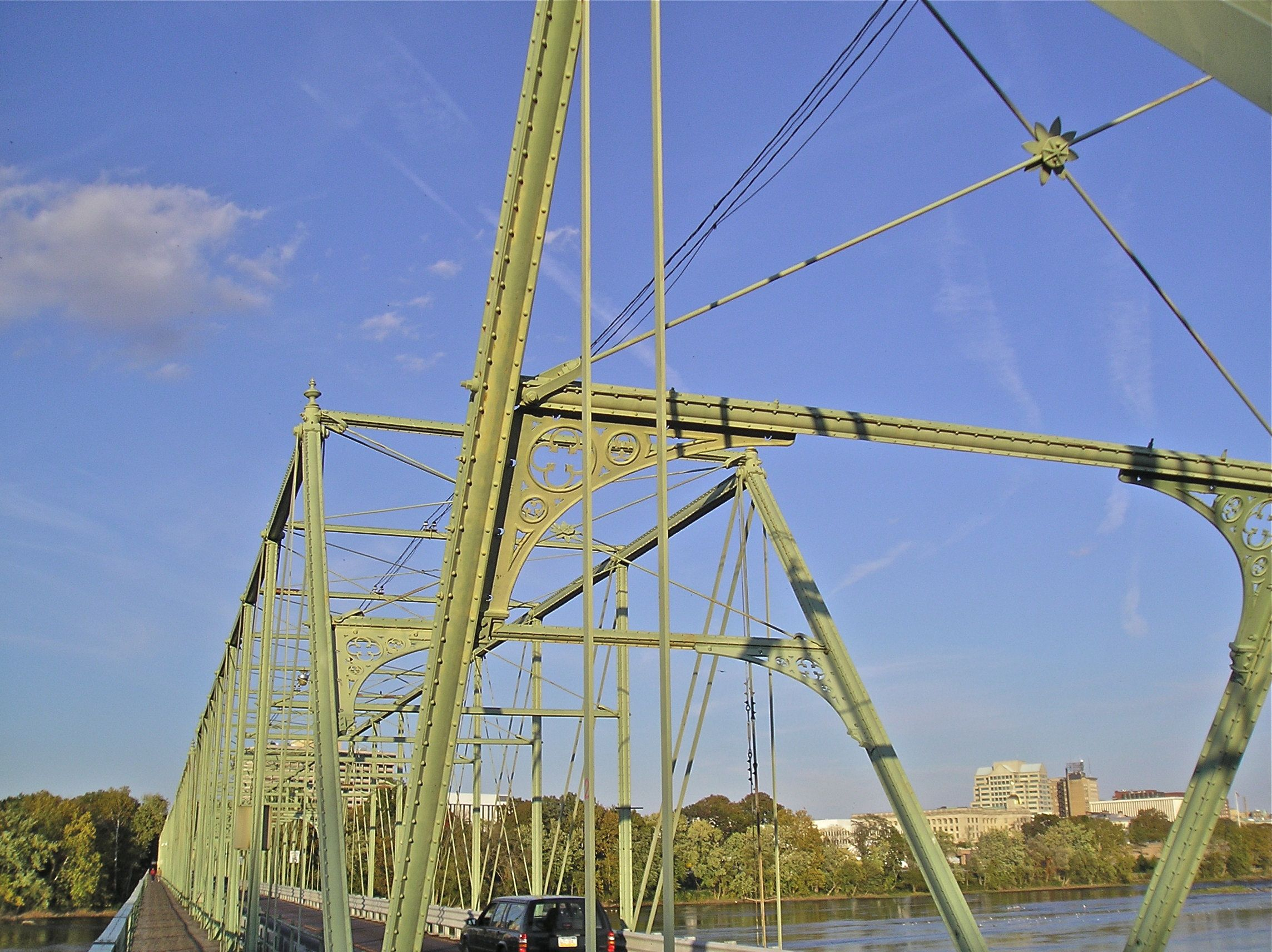 Detail shot of Calhoun Street Bridge, Trenton, NJ